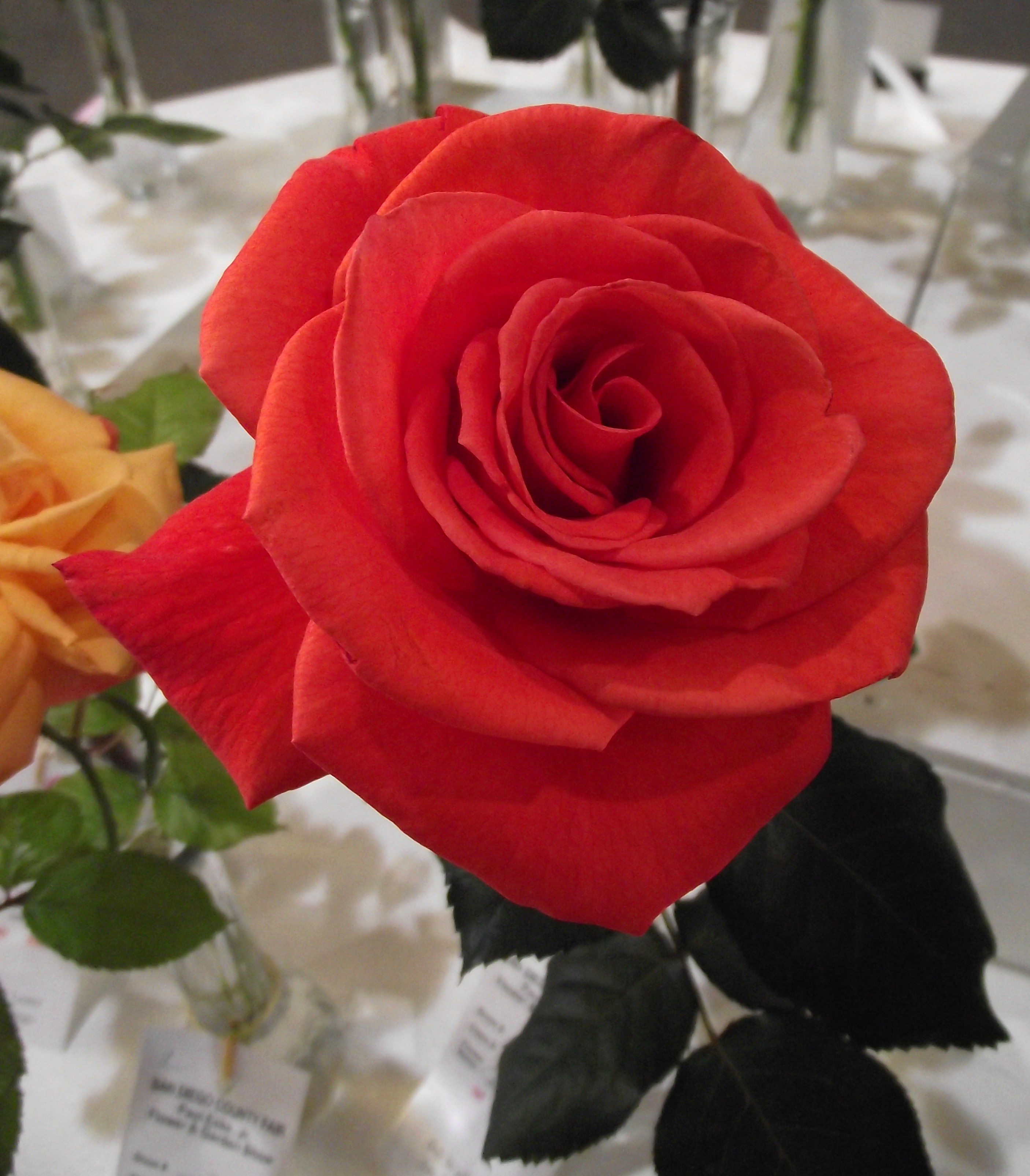 Rosa 'Candelabra' at the San Diego County Fair, California, USA. Identified by exhibitor's sign.